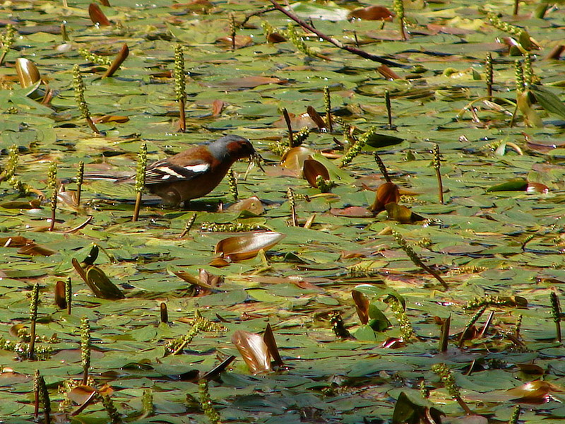 Chaffinch Fringilla coelebs (male) feeding on Dragonfly, Yedigöller - Turkey 2007